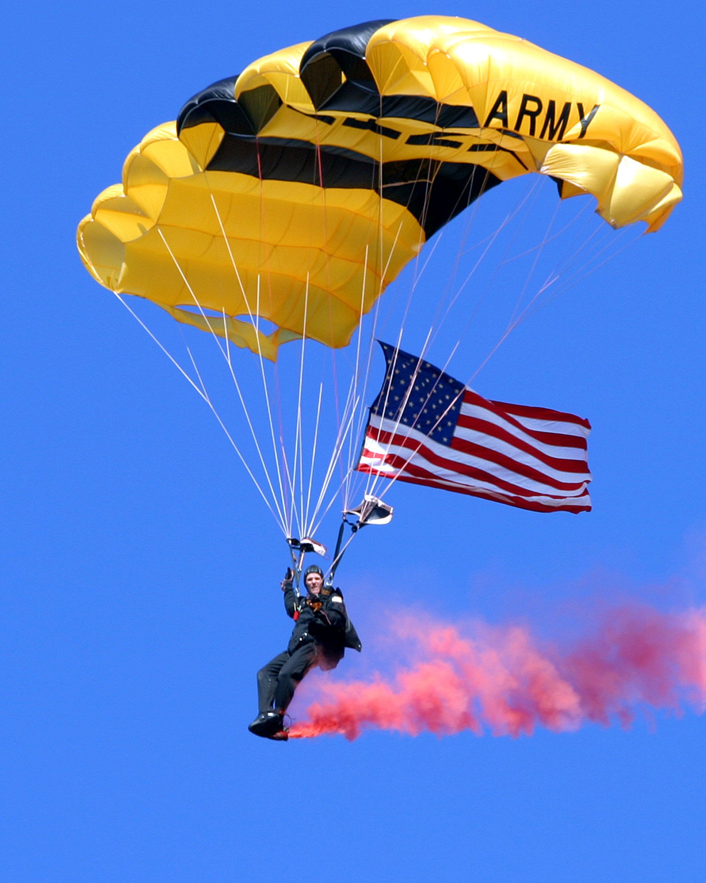 A member of the US Army parachute team Golden Knights descending under his parachute, with an American flag.